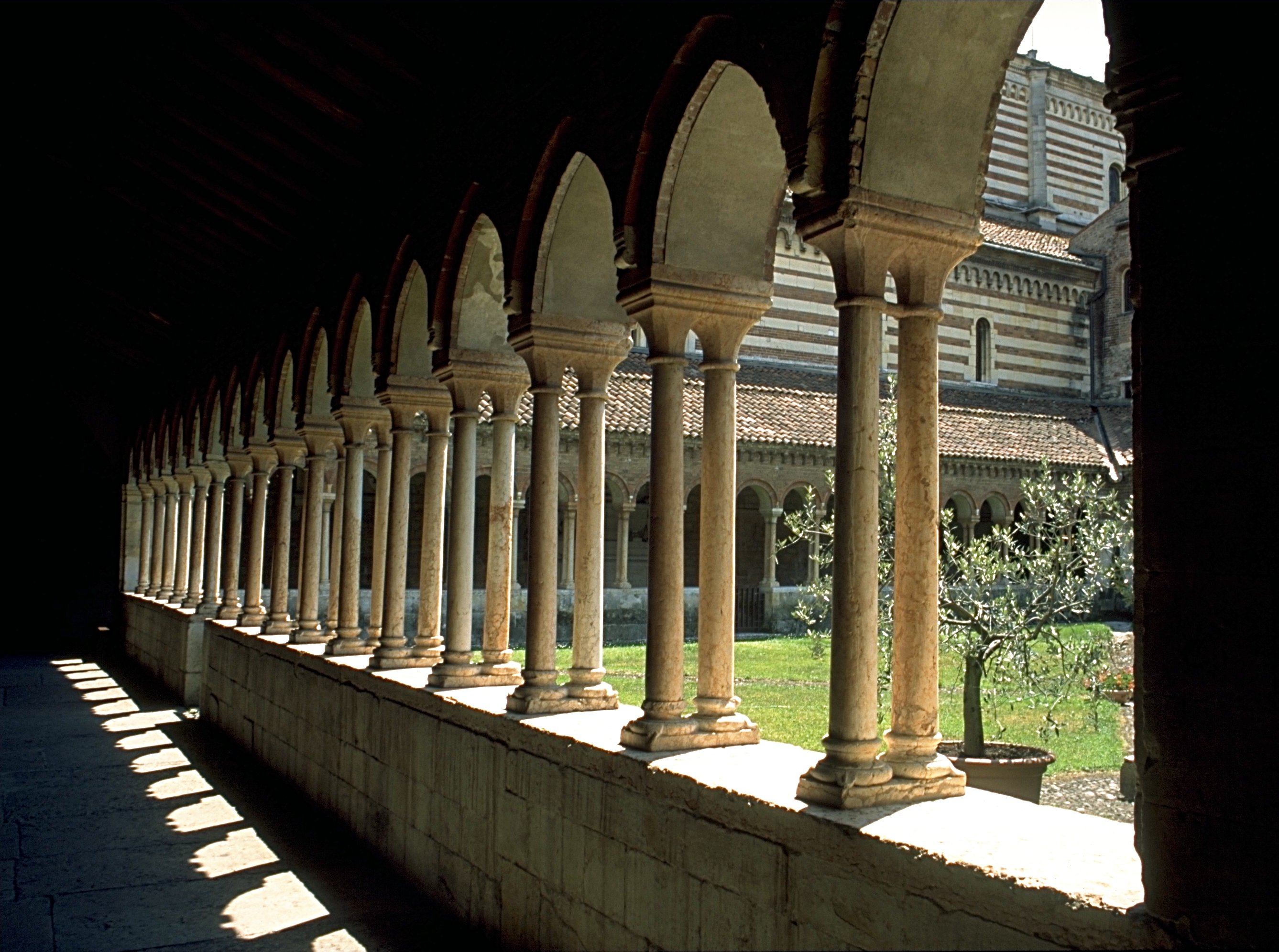 Cloister of San Zeno Maggiore, Verona Photo was taken using the following technique: Film: Fuji Velvia Lens: 2.8/28 Filter: none Body: Minolta 9000 Support: Manfrotto 190B Image with Information in English Bild mit Informationen auf Deutsch